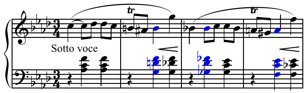 Dominant sevenths in Chopin's (1810–1849) Mazurka in F minor, op. 68, no. 4, m. 1-4.